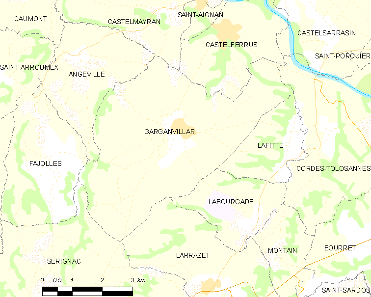 Map of French municipality Garganvillar